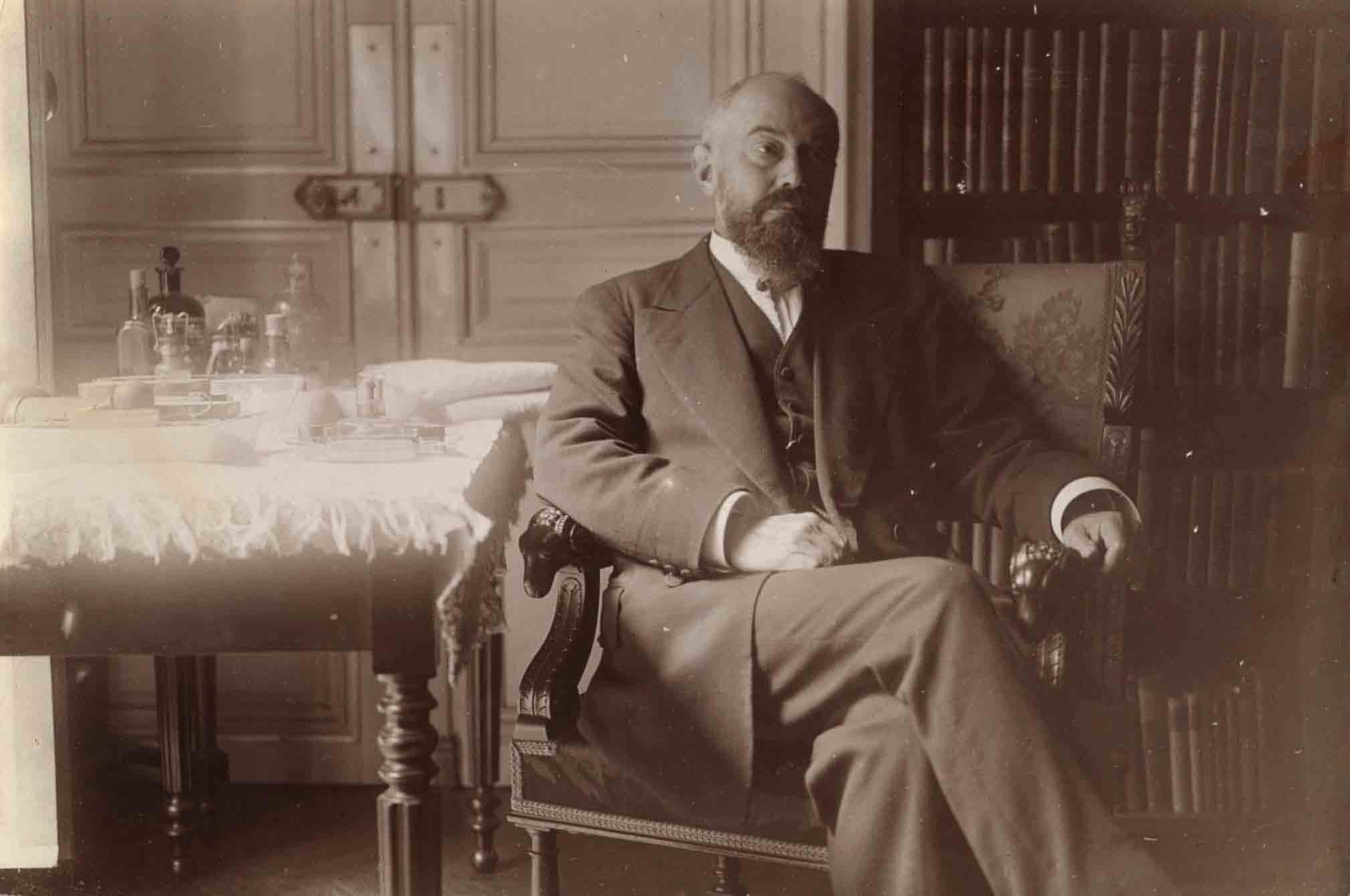 The French psychologist Pierre Janet (1859–1947) by Paul François Arnold Cardon a.k.a. Dornac (1858–1941).